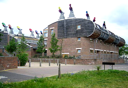 Beddington Corner: The BedZED estate BedZED stands for Beddington Zero Energy Development and is the UK's largest and first carbon-neutral eco-community. It was developed by the Peabody Trust and has won numerous awards. The buildings are constructed of materials that store heat during warm conditions and realease heat at cooler times, and where possible, they have been built from natural, recycled or reclaimed materials. The first residents moved in during March 2002, and these houses are on Helios Road. BedZED receives power from a small-scale combined heat and power plant (CHP). In conventional energy generation, the heat that is produced as a by-product of generating electricity is lost. With CHP technology, this heat can be harnessed and put to use. At BedZED, the heat from the CHP provides hot water, which is distributed around the site via a district heating system of super-insulated pipes. Should residents or workers require a heating boost, each home or office has a domestic hot water tank that doubles as a radiator. The CHP plant at BedZED is powered by off-cuts from tree surgery waste that would otherwise go to landfill. Wood is a carbon neutral fuel because the CO2 released when the wood is burned is equal to that absorbed by the tree as it grew. For more information the BedZED website is here